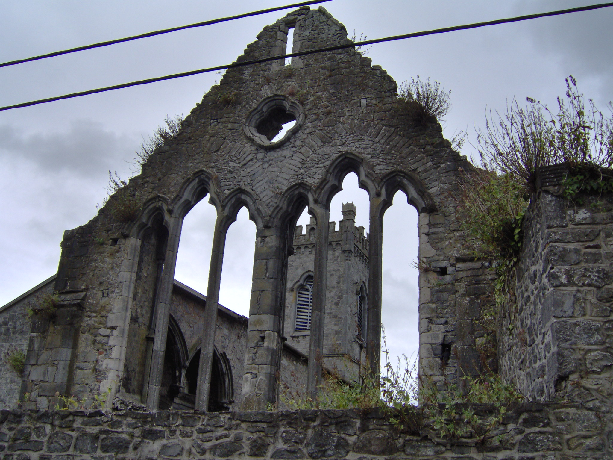 St John's Priory